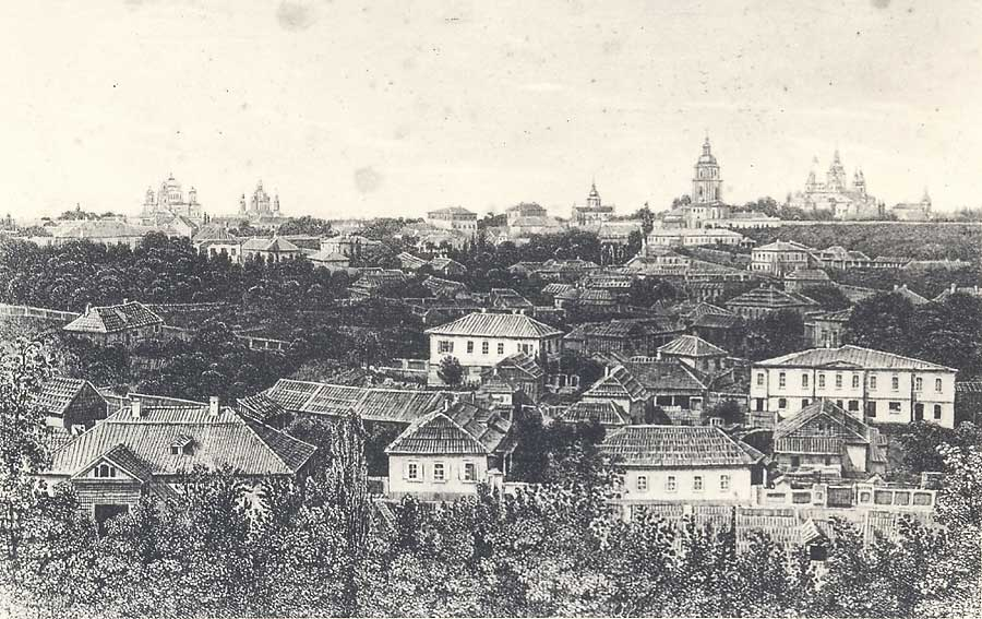 Panoramic view of Kyiv between 1870–1880. Zincography.